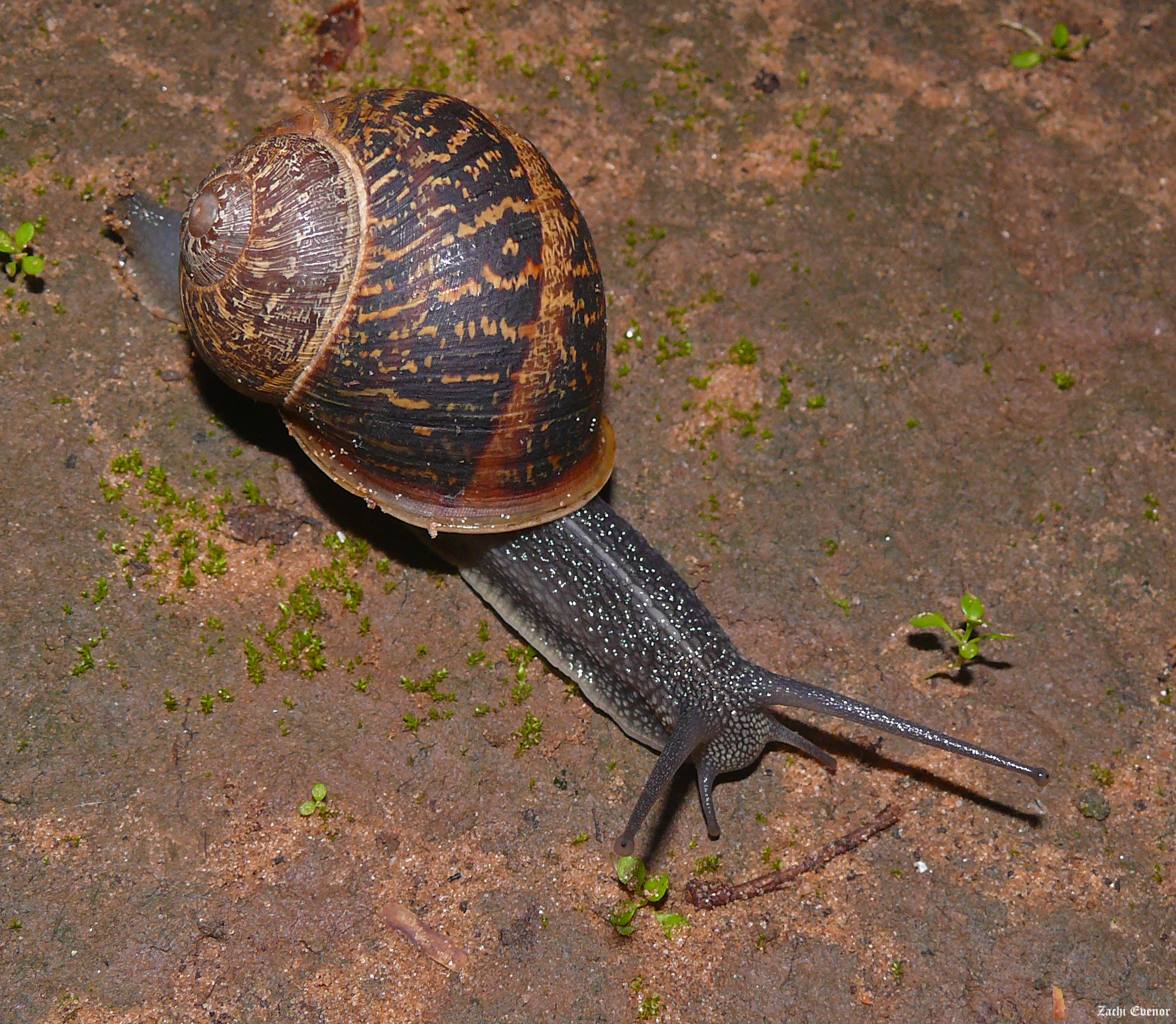 Common garden snail - Helix aspersa, Israel